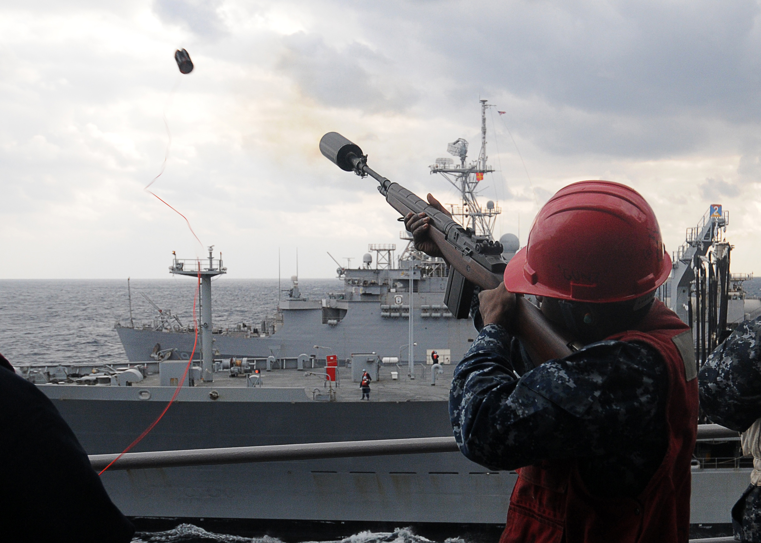 U.S. Navy Gunner's Mate 3rd Class Terrance Davis-Harris fires a shot line from the amphibious assault ship USS Essex (LHD 2) in preparation for a replenishment at sea with the fleet replenishment oiler USNS Pecos (T-AO 197) while under way in the Philippine Sea Jan. 31, 2011. Essex is the lead ship in the forward deployed Essex Amphibious Ready Group.